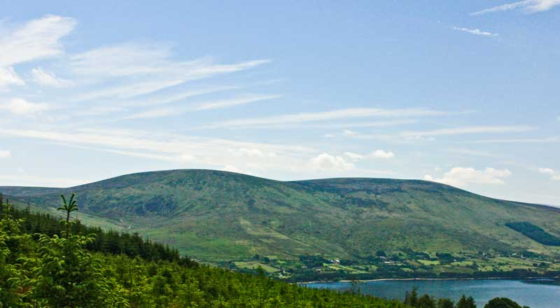 Moanbane (left), Silsean (right), photographed from the Blessington lakes in Wicklow, Ireland